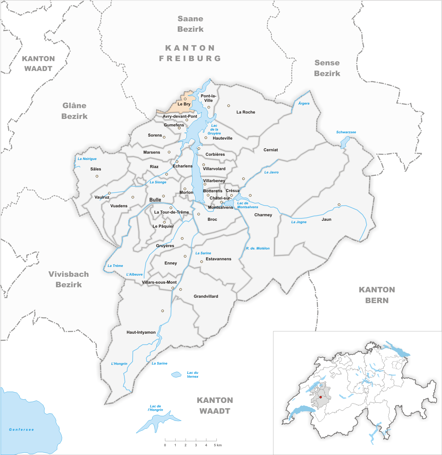 Municipality Le Bry Artist: Tschubby